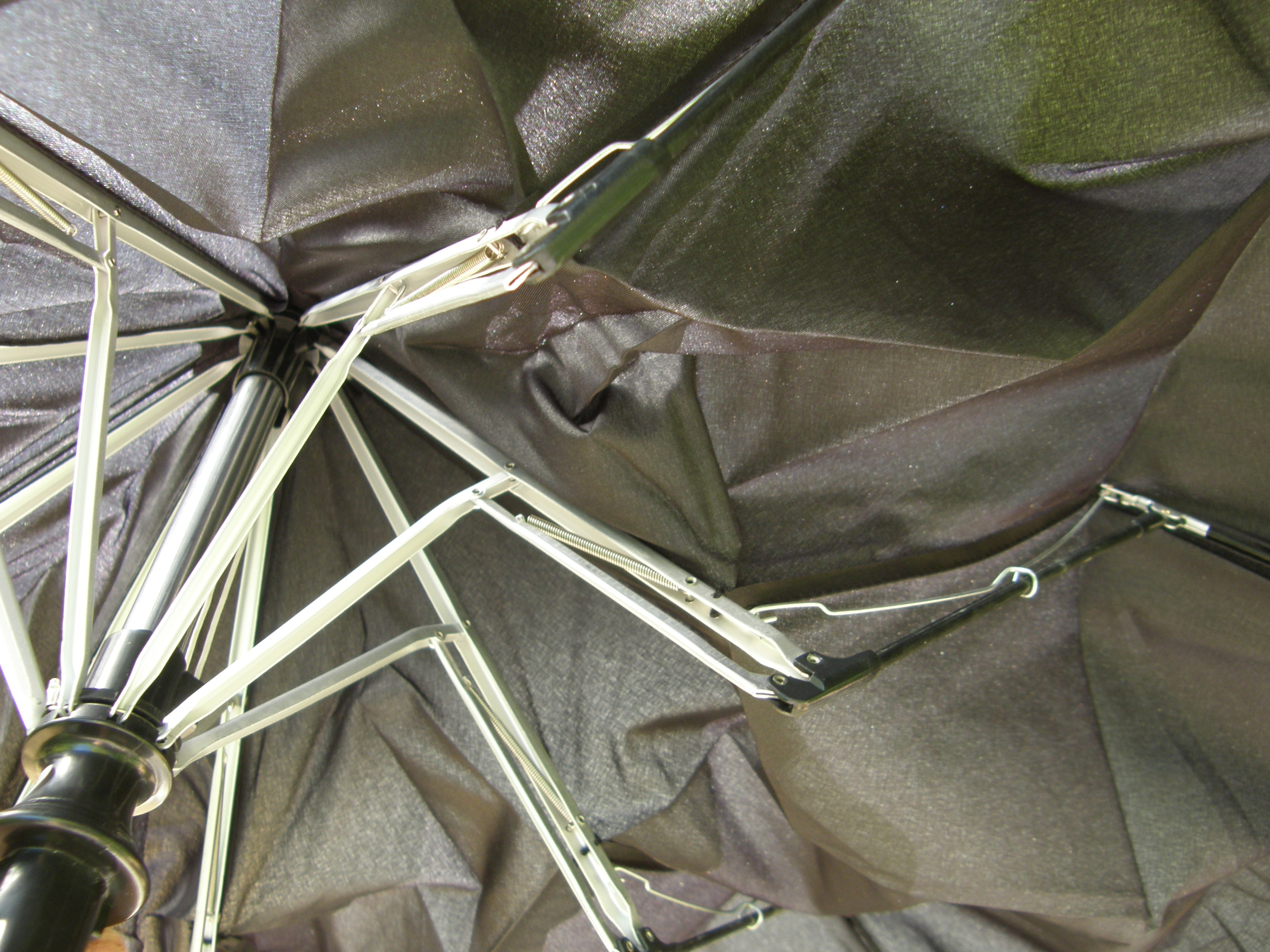 Details up-down-umbrella